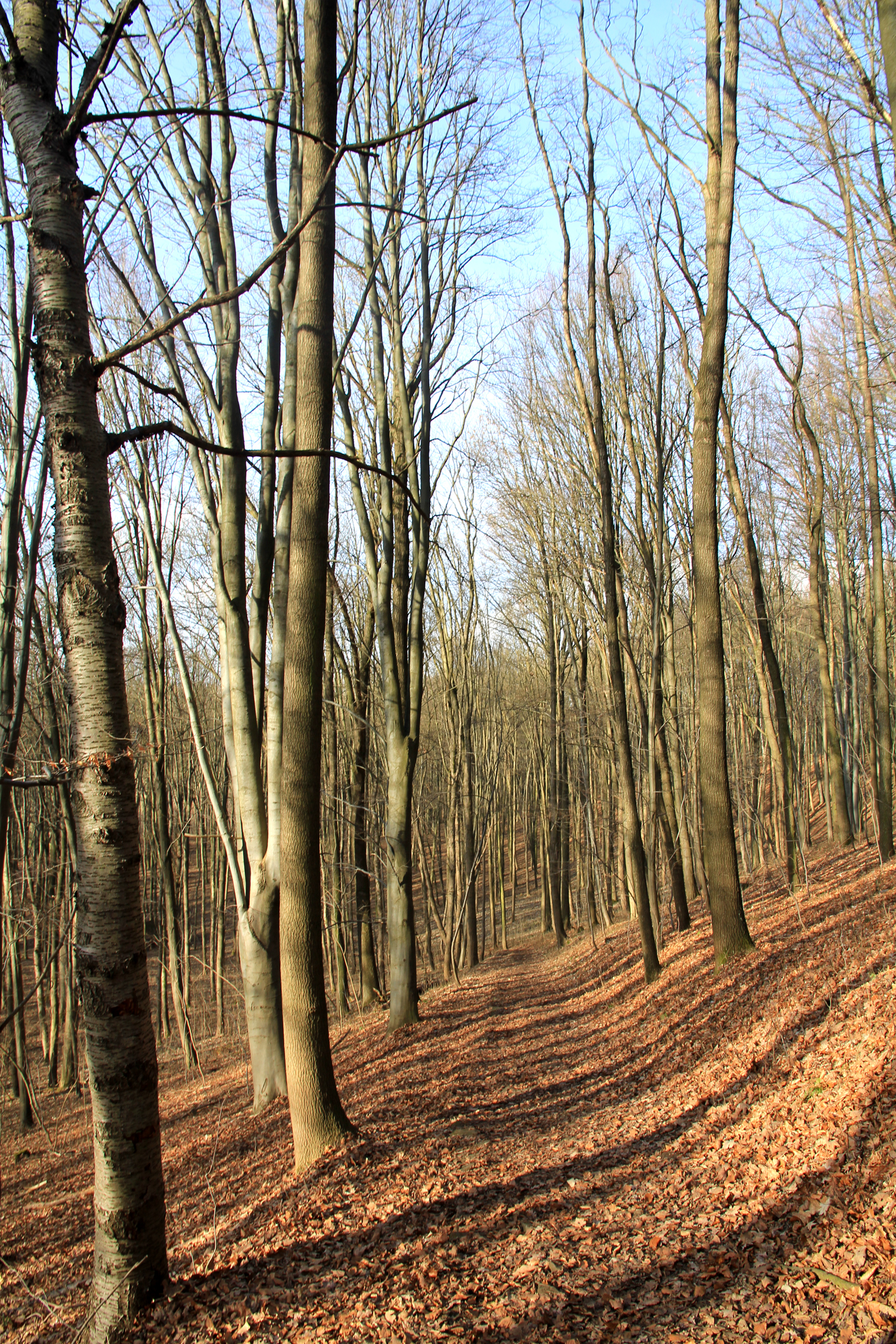 Forest in natural memorial Byšičky near of Lázně Bělohrad, Czech Republic